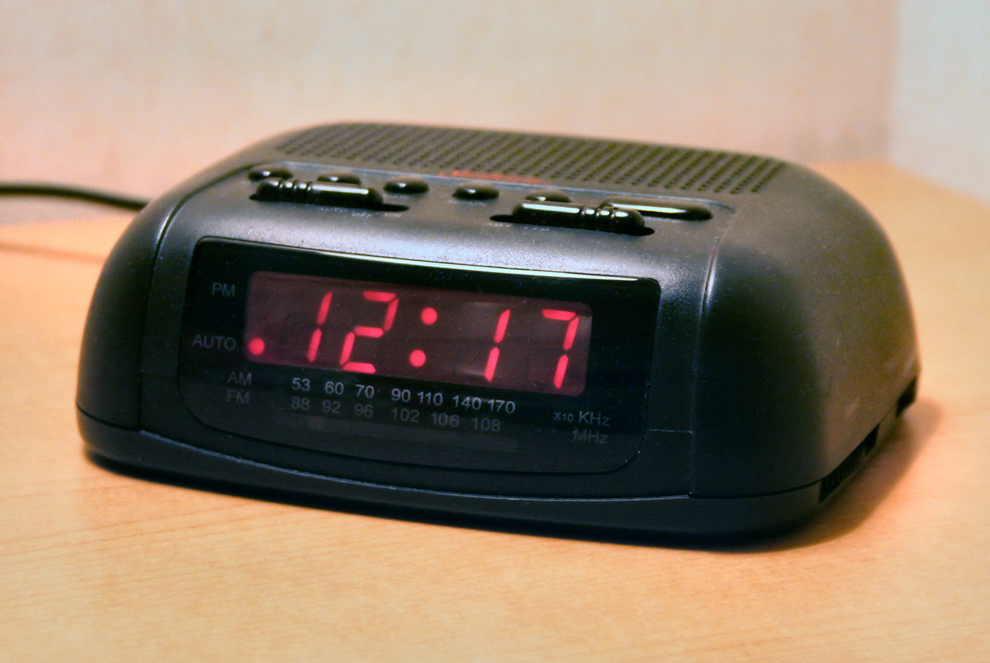 Digital clock of a basic design commonly found in hotels. Original photo shot by Derek Jensen (Tysto), 2005-September-29. Improved by Althepal using Helicon Filter.